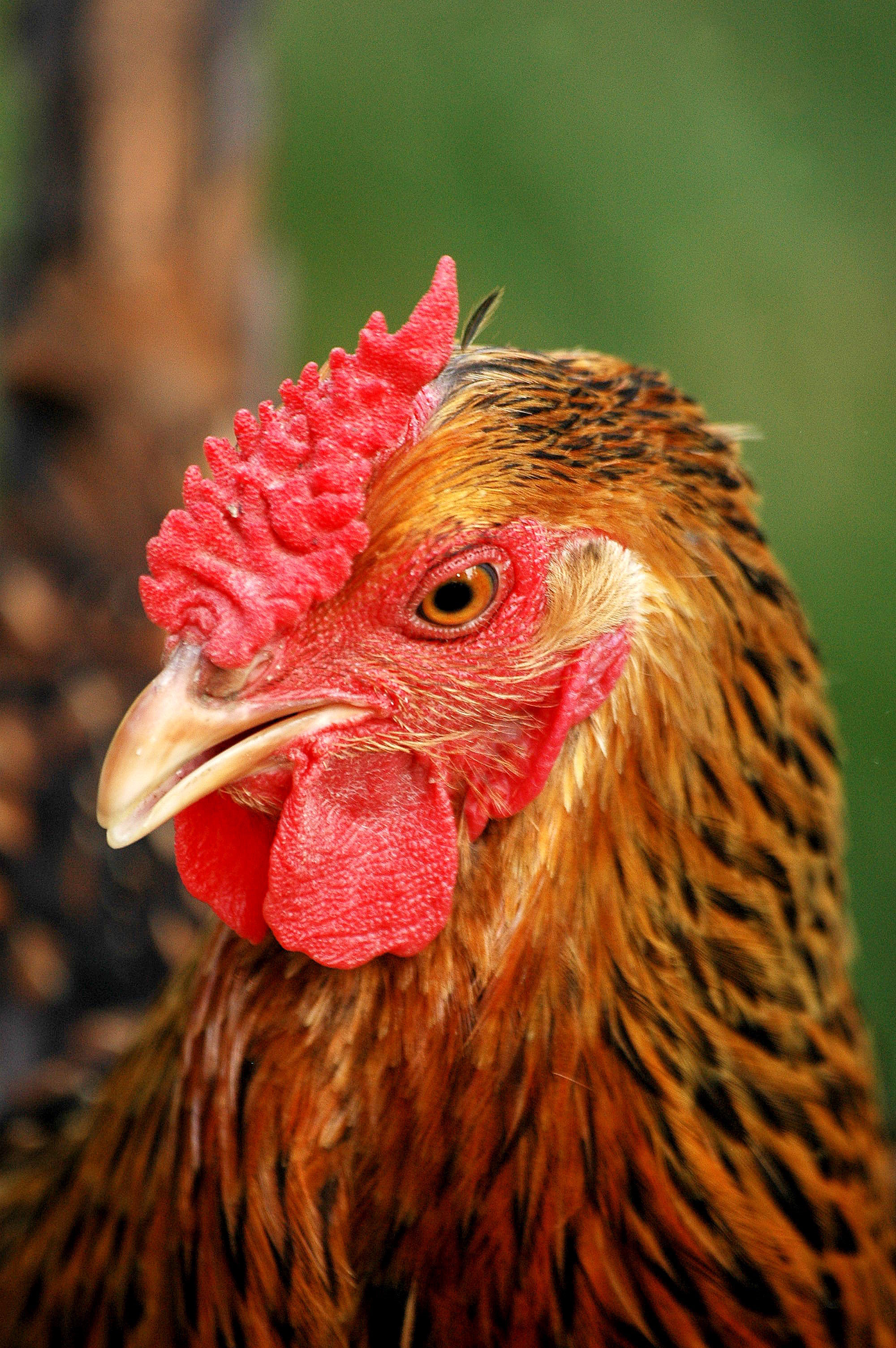 Blackberry, a Golden-Laced Wyandotte rooster.